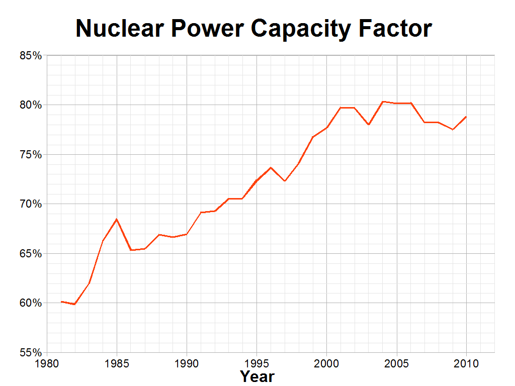 Worldwide nuclear power capacity factor. This file may be updated annually. Data from EIA International Energy Statistics[1]